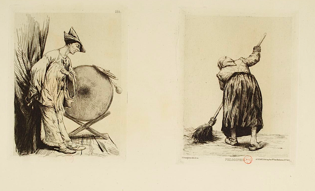 Philosophes !, etchings by Georges Duseigneur, published in L'Illustration nouvelle, Paris, Alfred Cadart, 1874, #235.